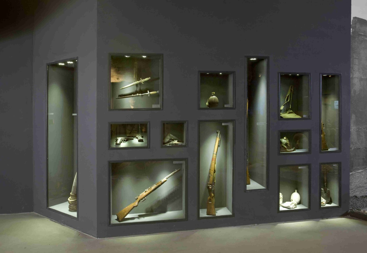 Silesian museum - Hrabyn 4